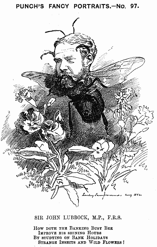 1882 caricature of John Lubbock